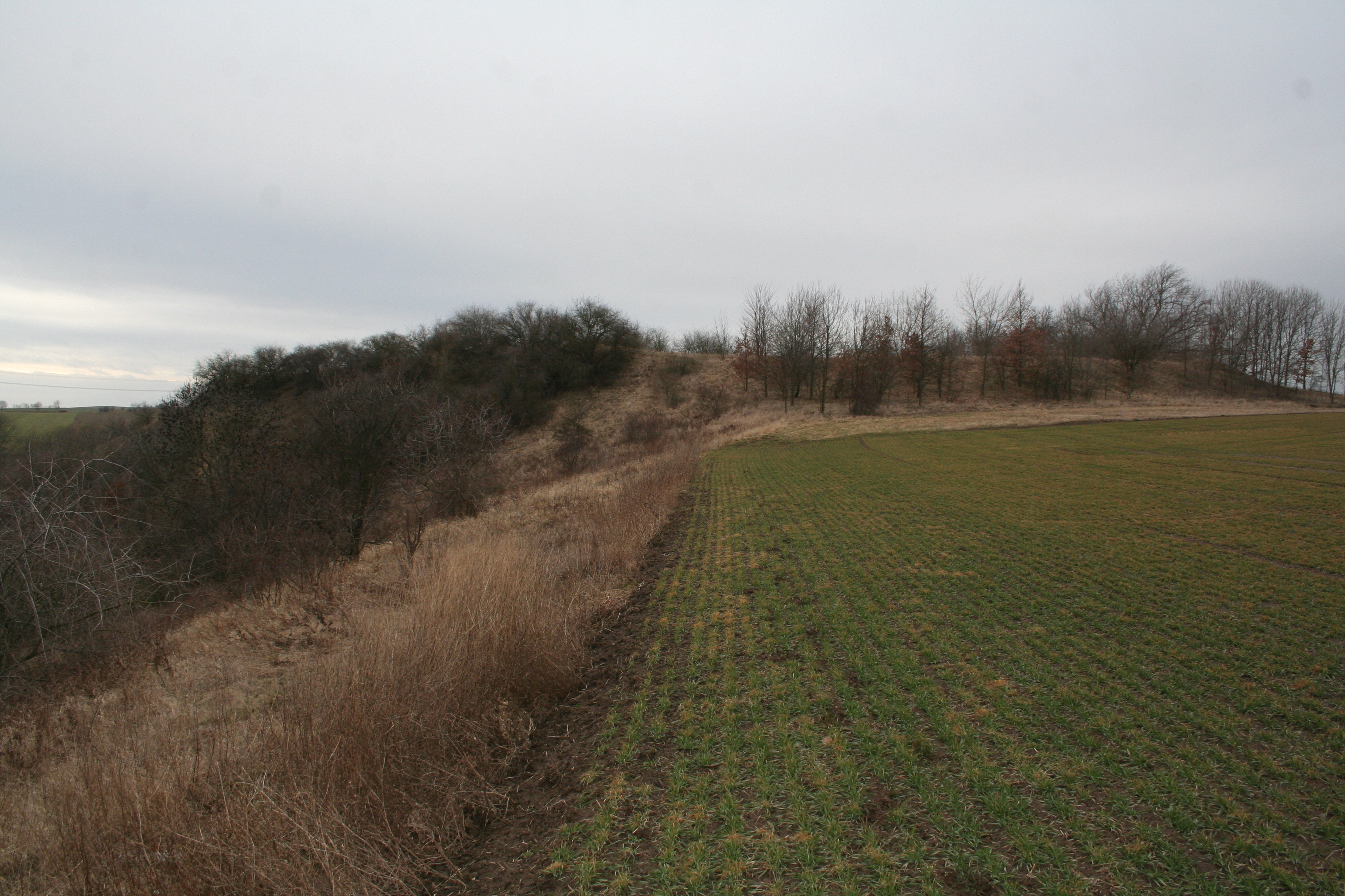 Schalkenburg near Quenstedt